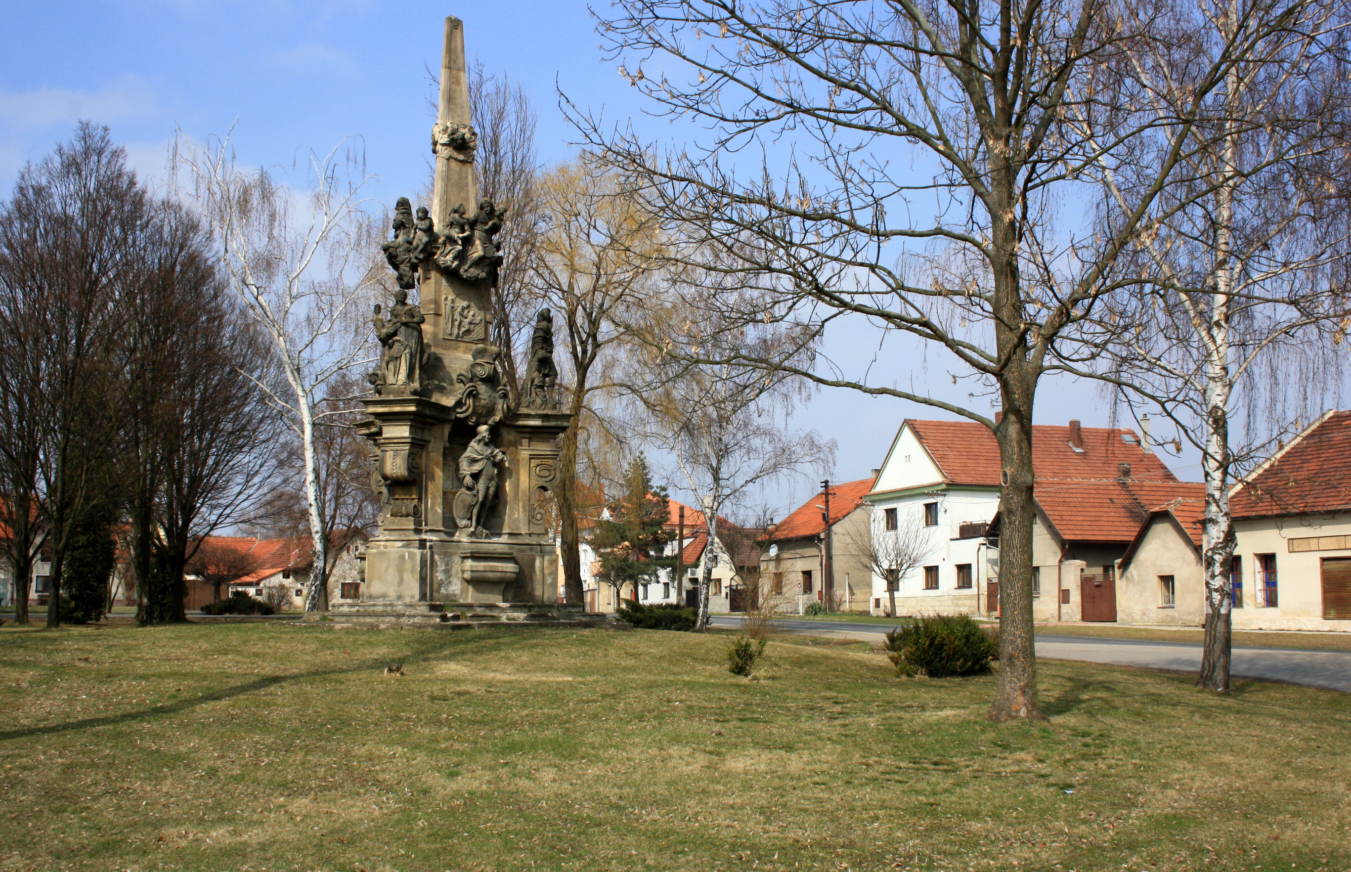 Common in Chlumín, Czech Republic